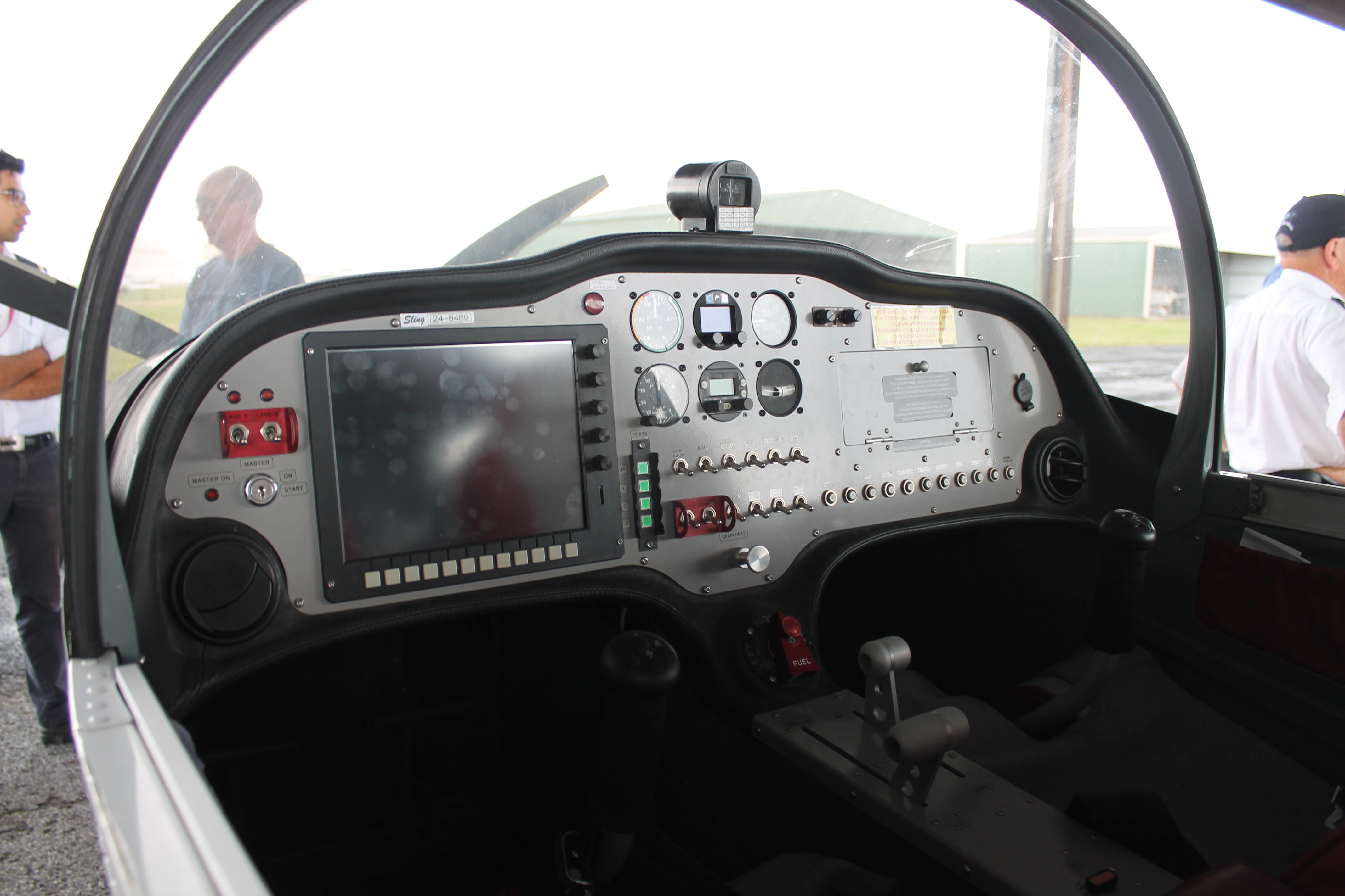 RA-Aus Sling 2 Cockpit Registration 24-8489